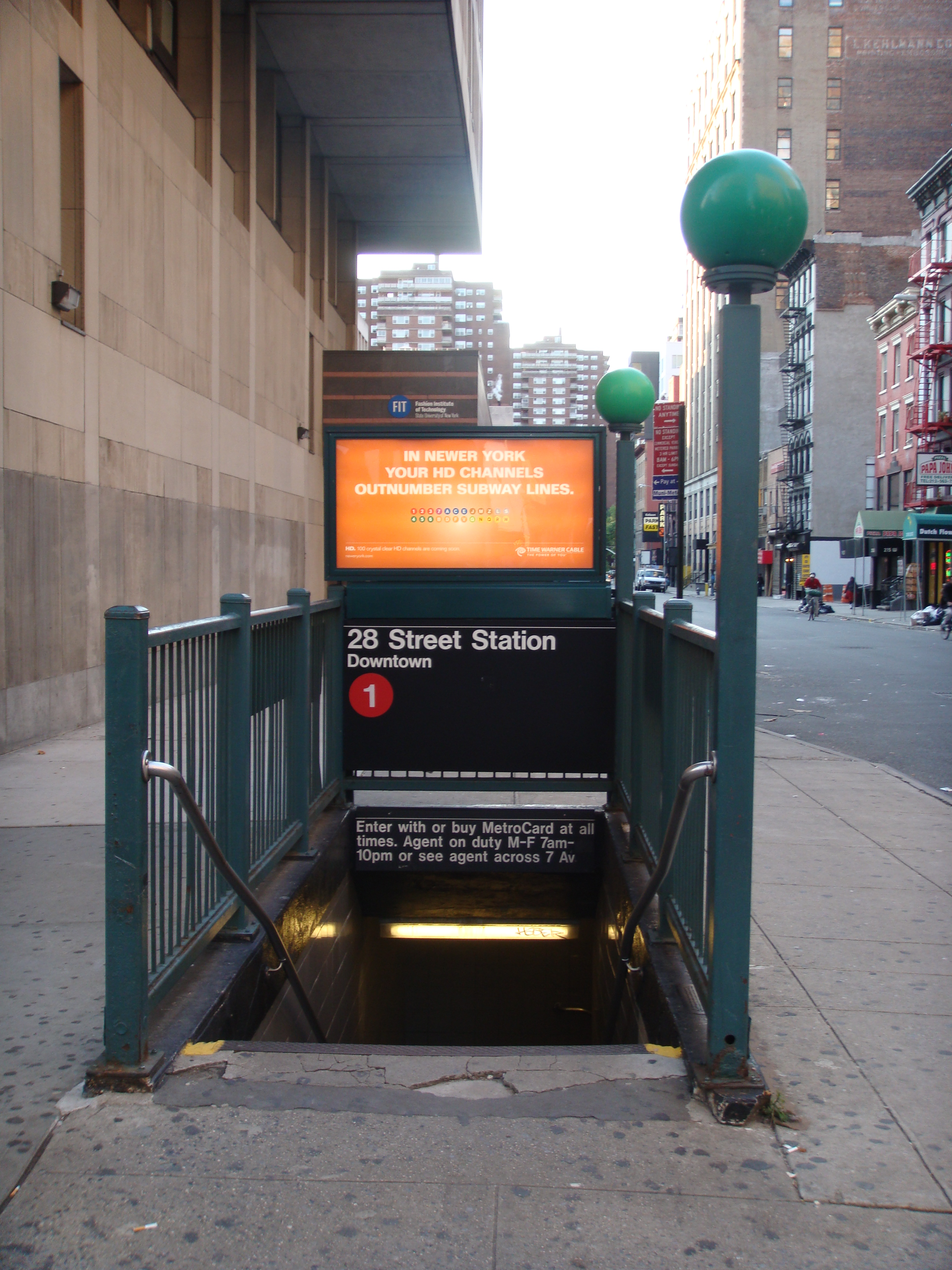 This photo is of Wikis Take Manhattan goal code D4, 28th Street (IRT Broadway – Seventh Avenue Line).